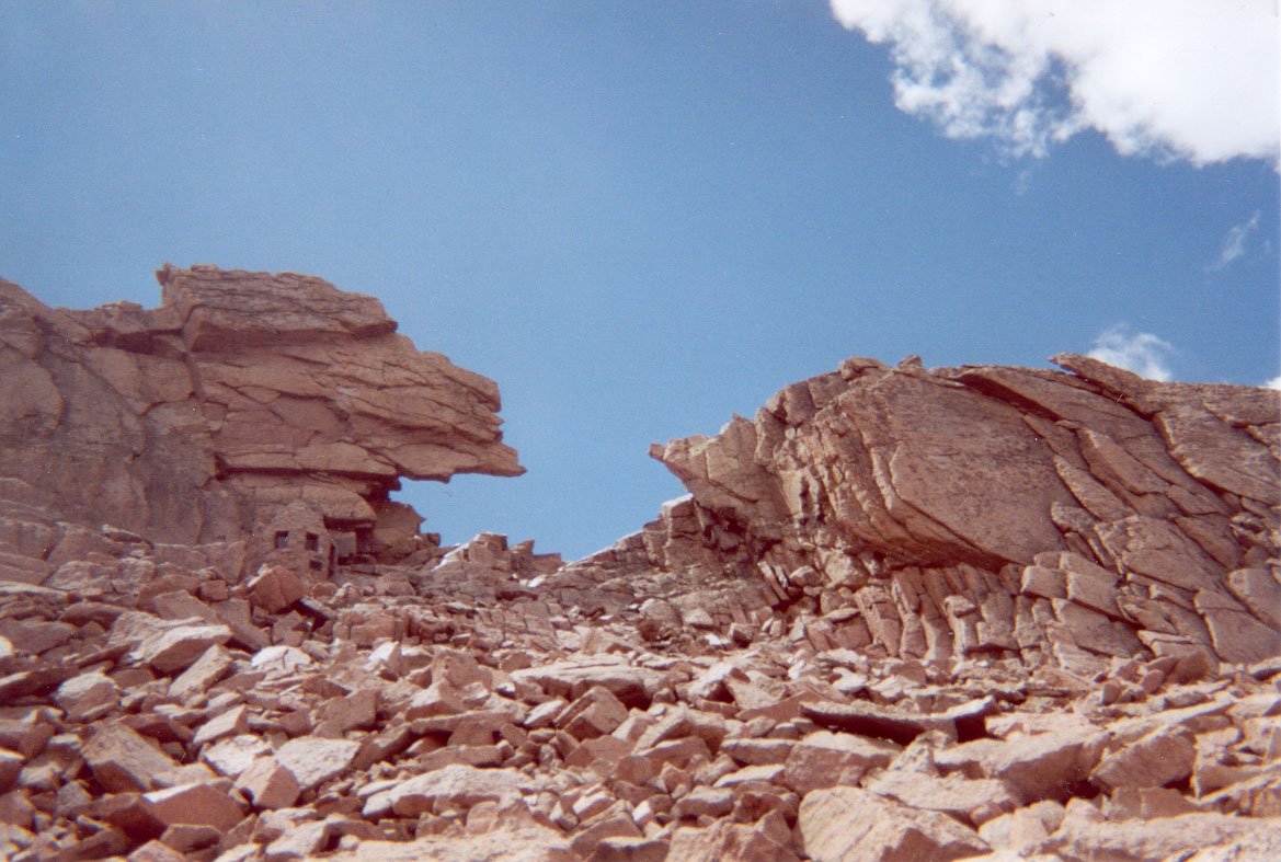 Taken by J. Benjamin Wildeboer, August 2004. Small shelter to left of needle eye is about 10 x 10 x 10 feet in dimensions, gives sense of perspective. Hard to see because made of local stones matching colors. Does have square windows.